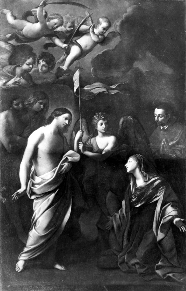 'Christ in limbo before his Mother', by Guido Reni, painted ca. 1629. This painting was part of the collections of the Gemäldegalerie Alte Meister in Dresden and it was destroyed during the Second World War, in 1945. - Dimensions: 322 x 199 cm - Oil on canvas